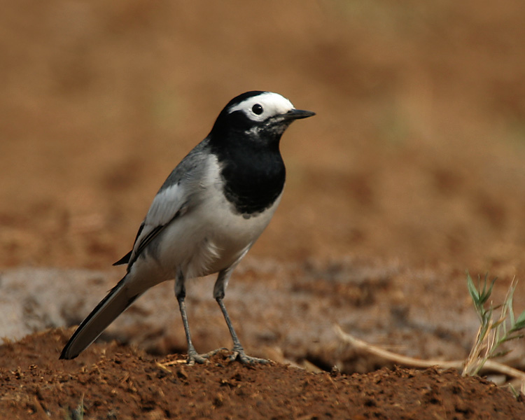 White Wagtail Motacilla alba at Hodal in Faridabad District of Haryana, India.